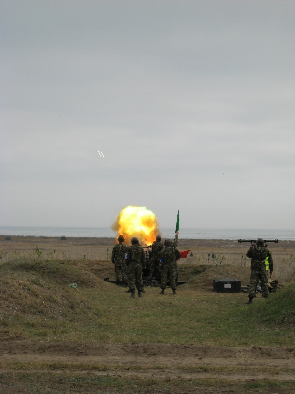 Soldiers from the 635th AA defense battalion training with 30 mm M1980 anti-aircraft guns at Capu Midia firing range. .